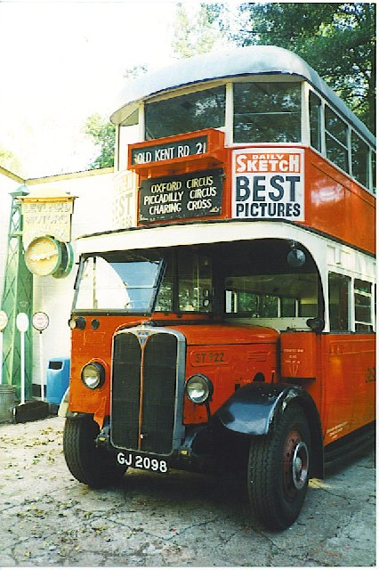 Preserved London Transport bus ST922 (reg. GJ 2098), an AEC Regent 1 with Tilling bodywork, new to the Thomas Tilling company, a south London operator which was later subsumed into London Transport upon its creation in 1933. Pictured at the Cobham Bus Museum.